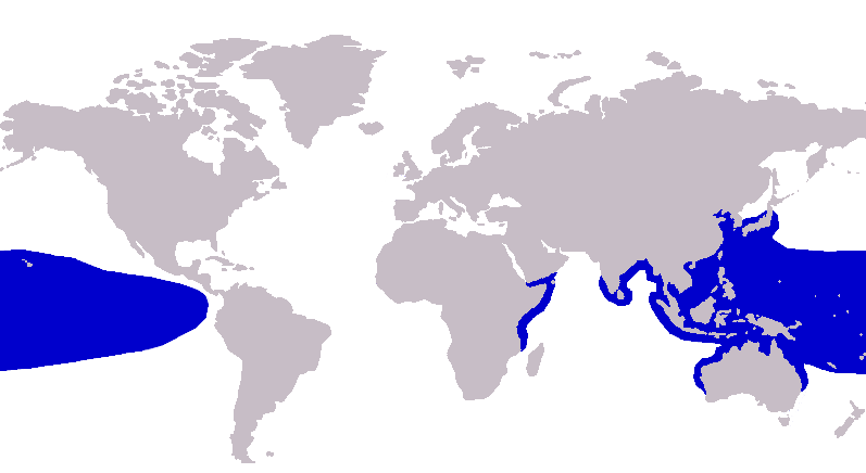 Distribution of island trevally, Carangoides orthogrammus using map based on GDFL image